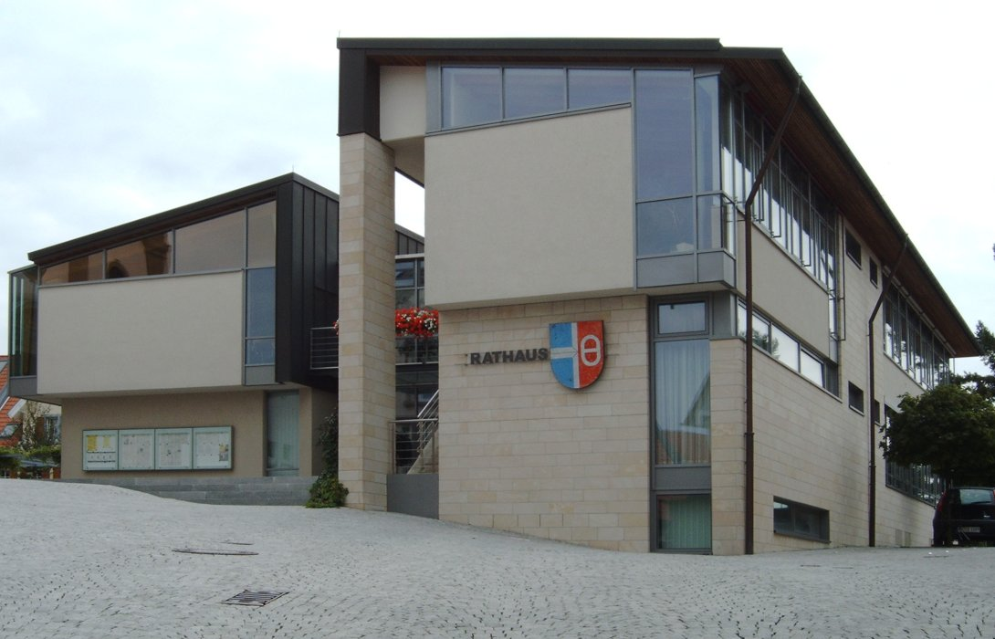 Town hall in Malsch (bei Wiesloch)